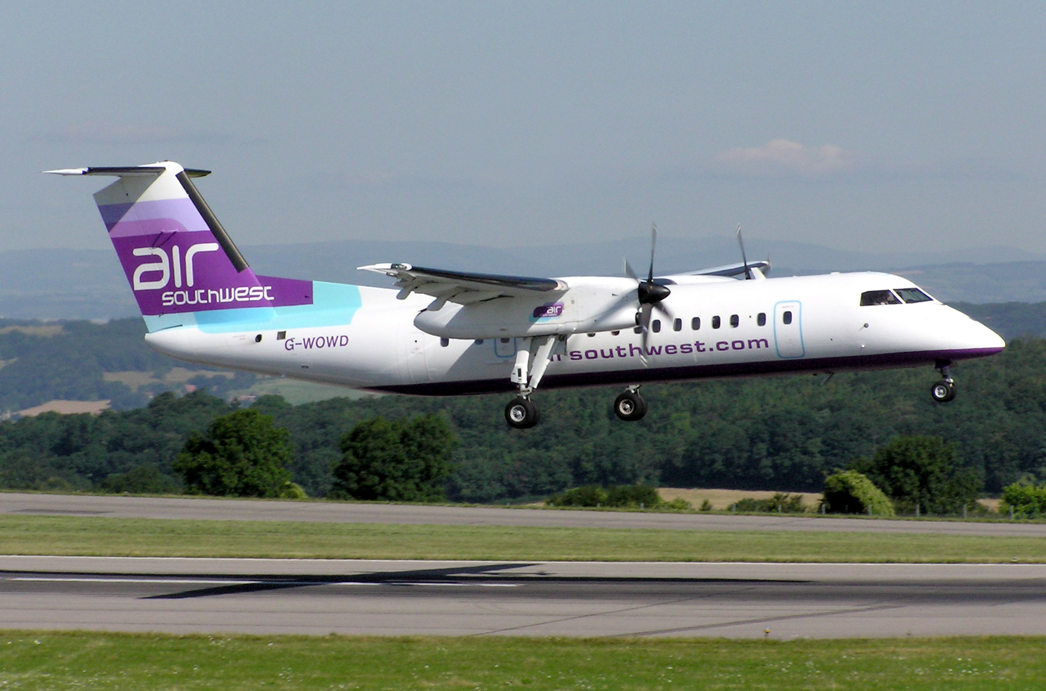 Air Southwest de Havilland Canada Dash-8 (UK registration G-WOWD, built 1991) lands at Bristol International Airport, Bristol, England.